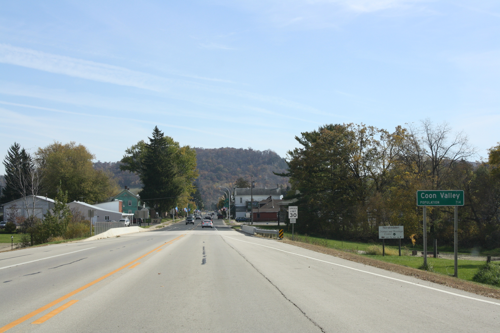 The sign for Coon Valley, Wisconsin along Wisconsin Route 14 / Wisconsin Route 61.